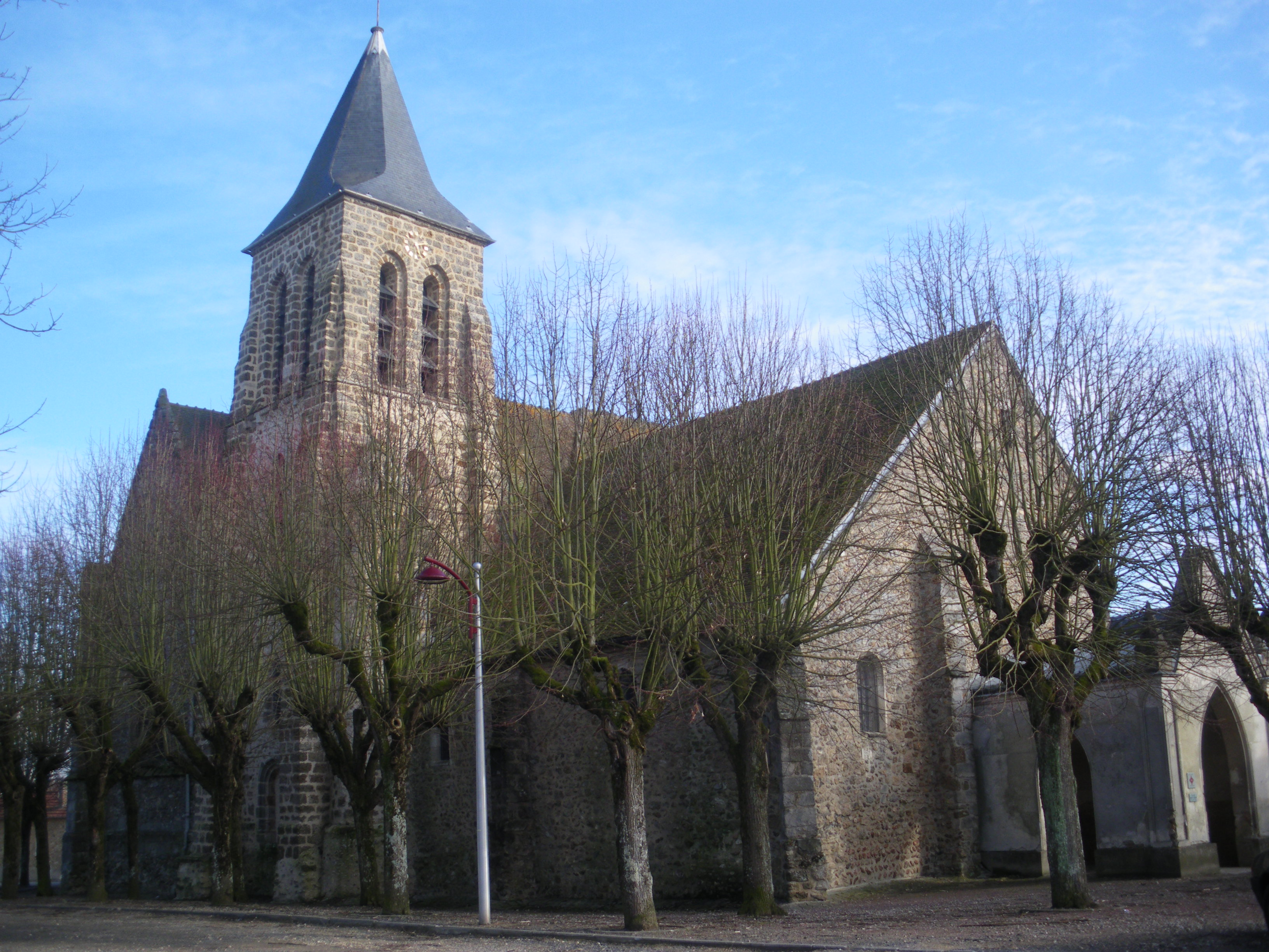 Saint Didier Church, Bruyères le Chatel,Essonne, France